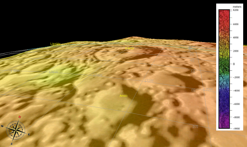 I created this image using NASA's [World Wind] program. Since this image was created using public software and data provided by the U.S. Government, it is not derived from copyrighted material.